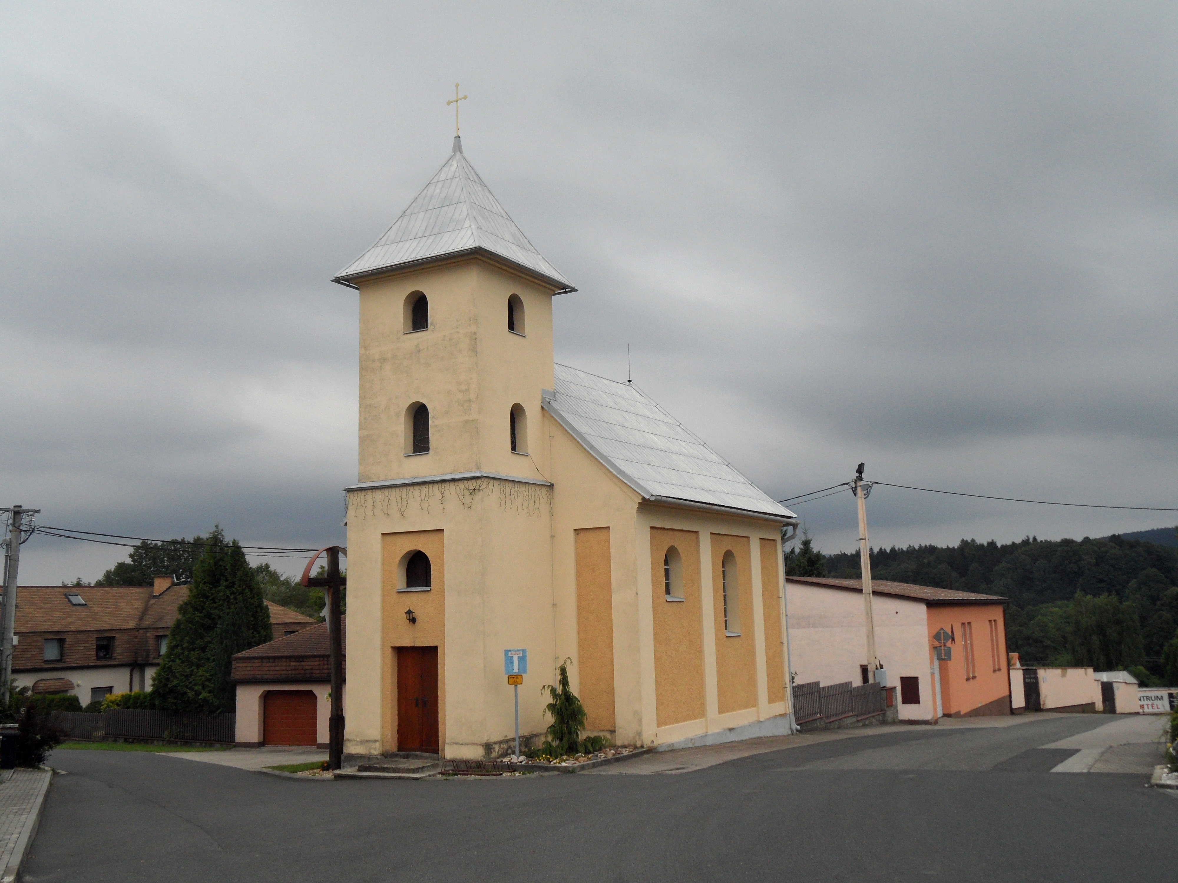 Hradec-Nová Ves: Chapel of Saint Anna. Jeseník District, the Czech Republic.